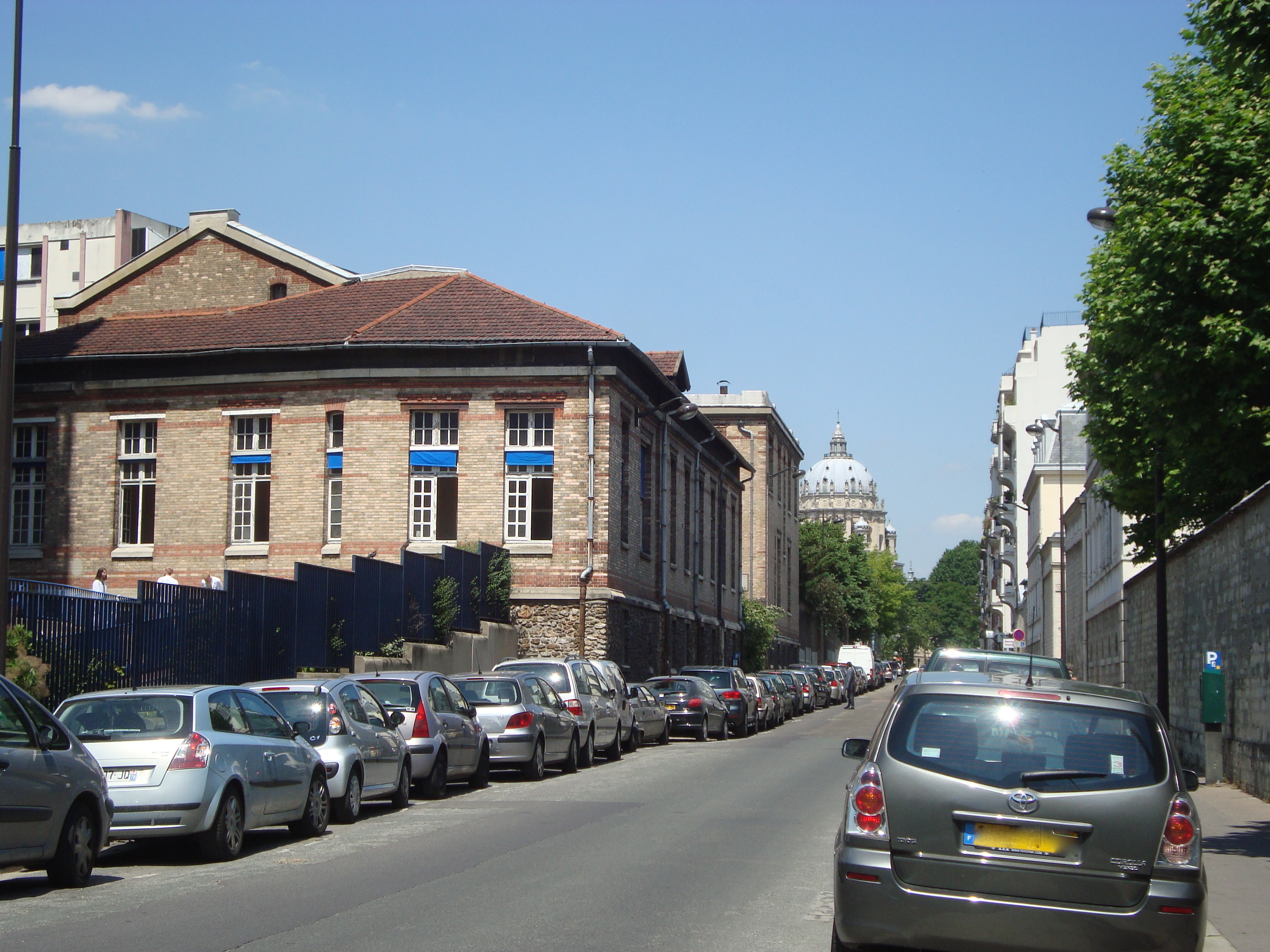 View of the north part of the rue de la Santé in Paris. On the left some of the buildings of the Cochin hospital, in the back the dome of the Val-de-Grâce Church.